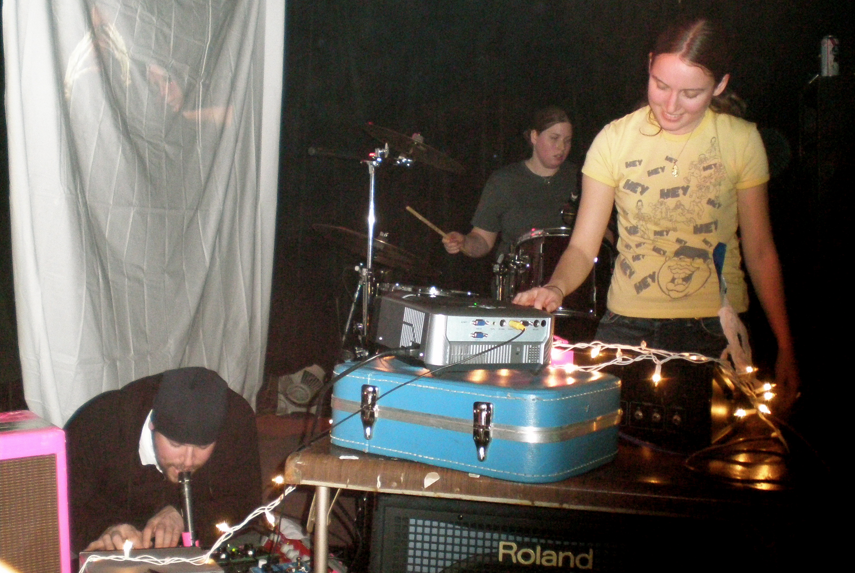 Black Moth Super Rainbow performing live in Minneapolis, MN. Pictured are Tom Fec (lower left), Maureen Boyle (foreground), and Donna Kyler (background).